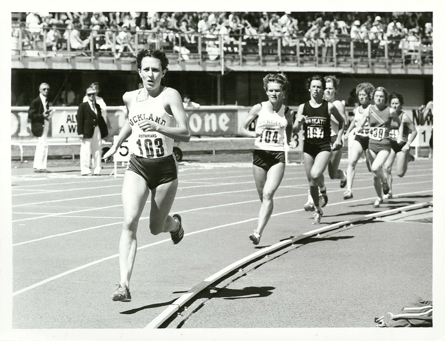 Title: Sport - Athletics Publicity Caption: N.Z.A.A.A. Championships. Q.E.2 Park. Women's 800 metres. Anne Audain (Auckland) Photographer: R. Coad (R24844493), Christchurch, R24844493 AAQT 6539 W3537 4 / R7195, Material from Archives New Zealand